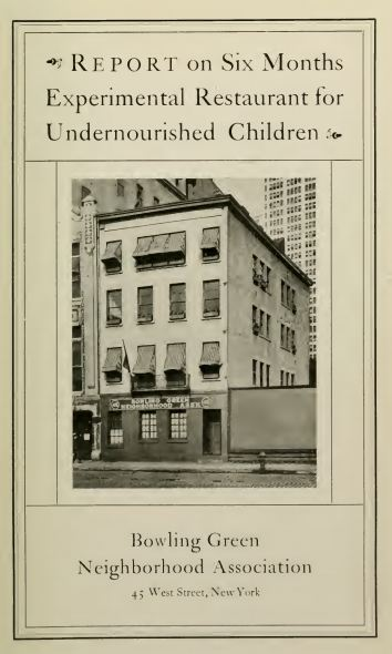 Cover for 1920 Bowling Green Neighborhood Association’s report. Location of the Association at the time was 45 West Street. Source: Bowling Green Neighborhood Association. Report on Six Months Experimental Restaurant for Undernourished Children. New York: Bowling Green Neighborhood Association, 1920, p. 1.